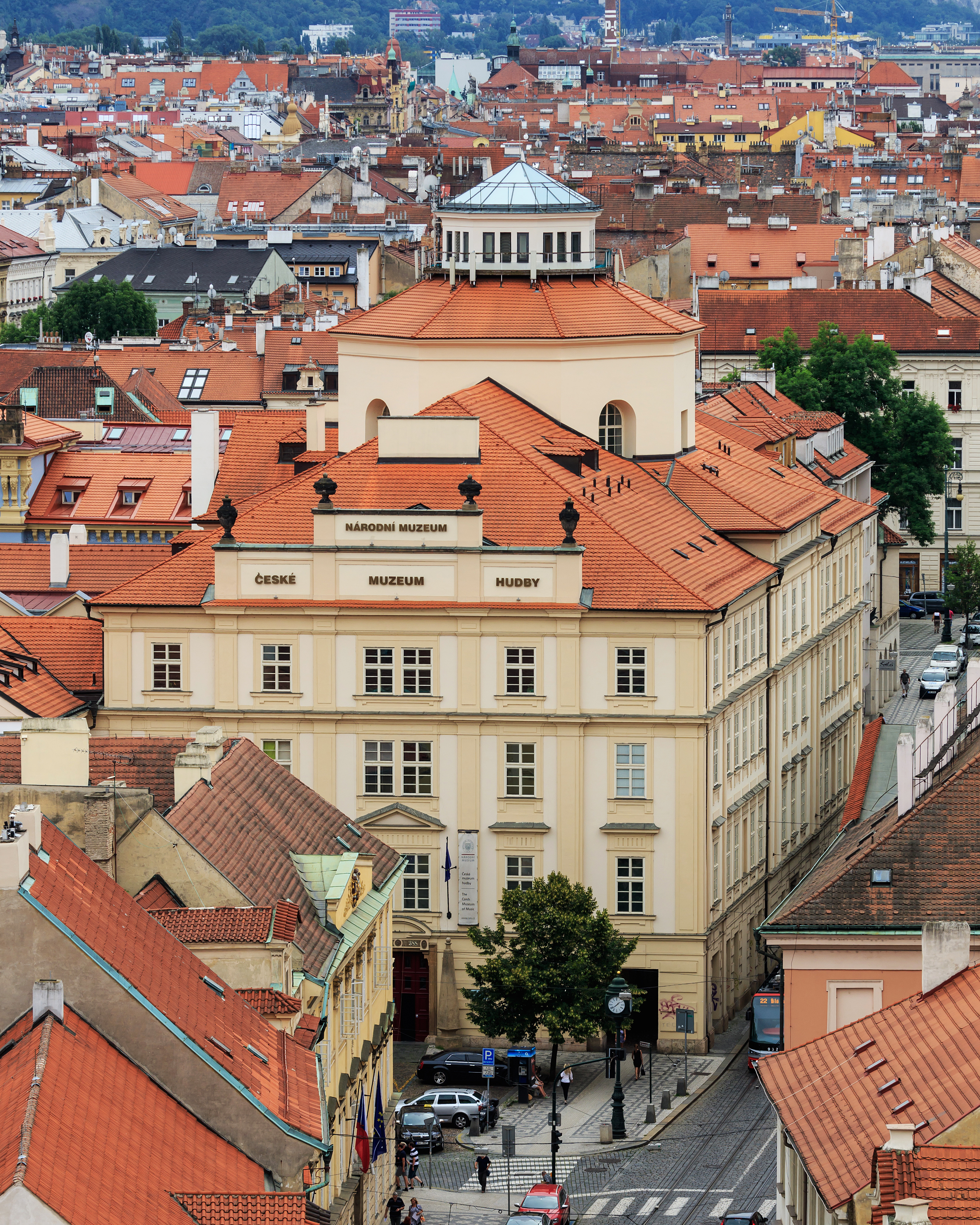 View from St.Nicholas Church in Lesser Town in Prague (Czech Republic) – Czech Museum of Music